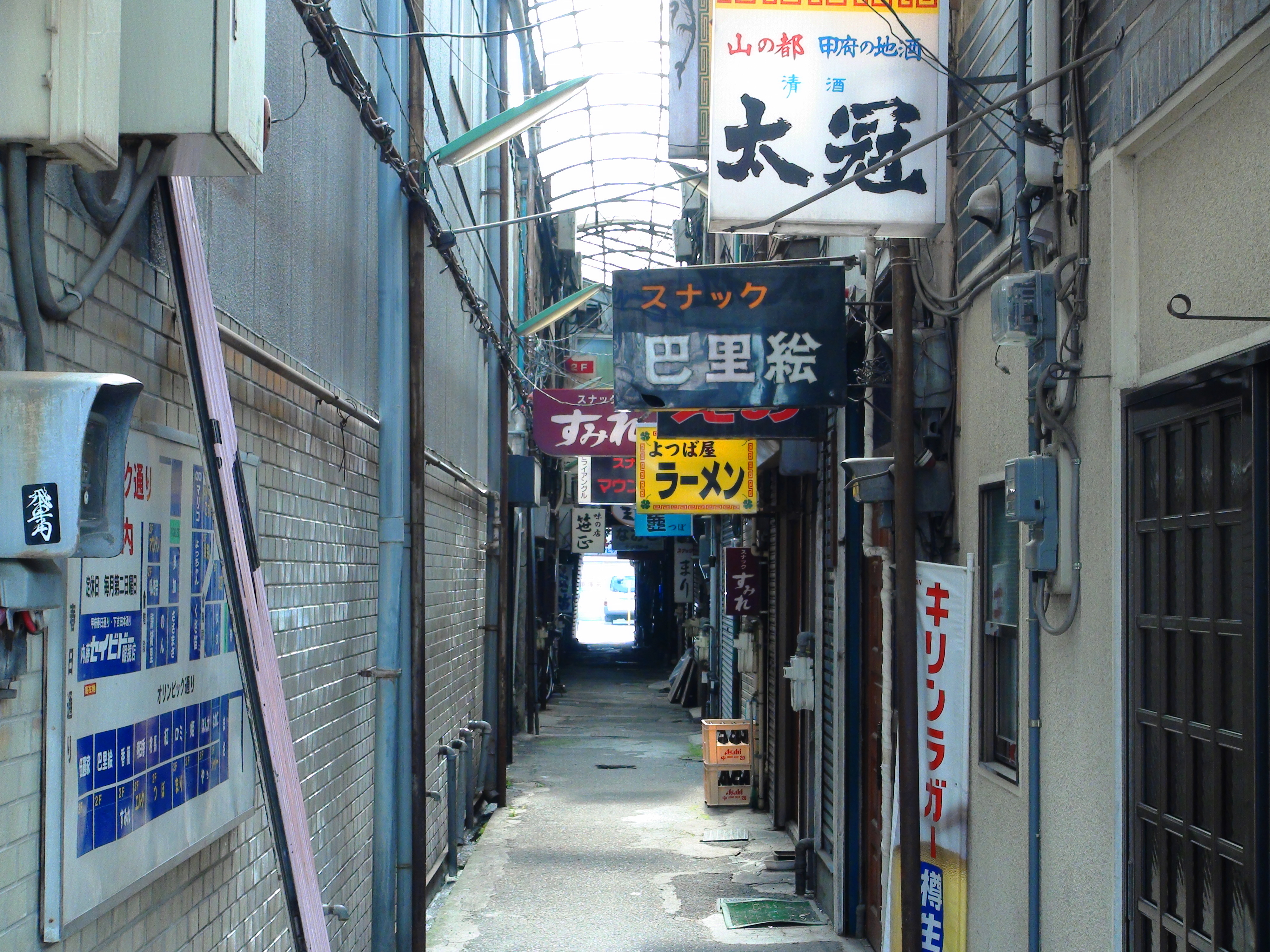 Urakasuga, Kofu-City where small bars crowd